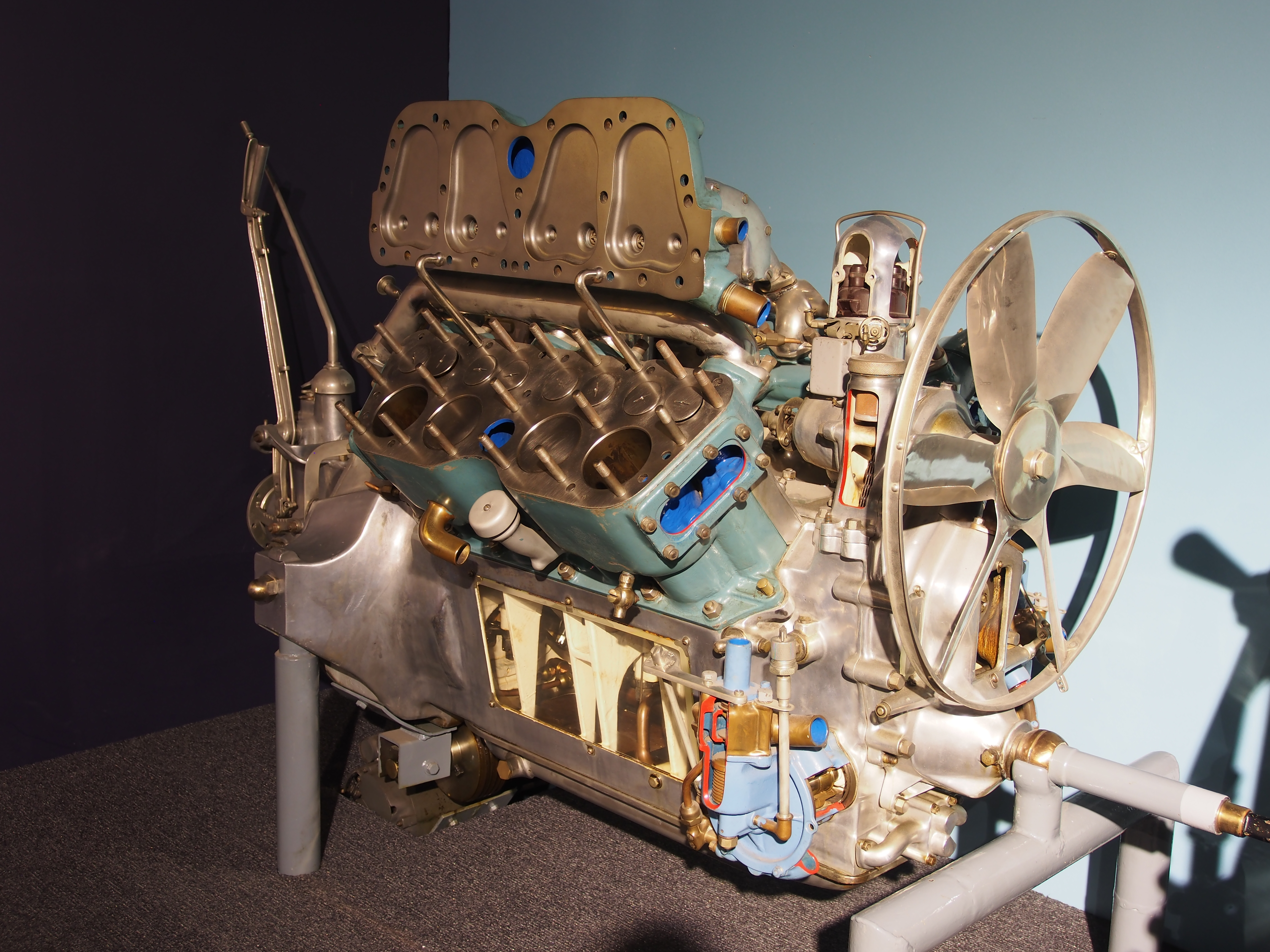 Car engine photographed at the Louwman museum.